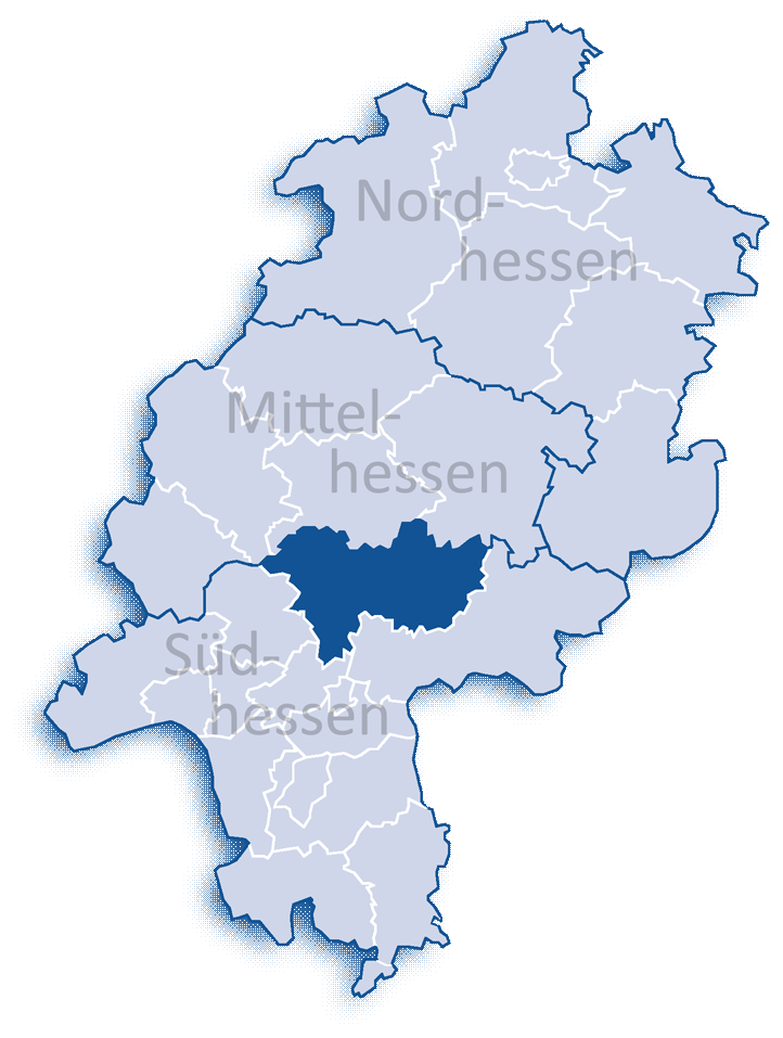 The map shows the district Wetteraukreis. A district in Hesse